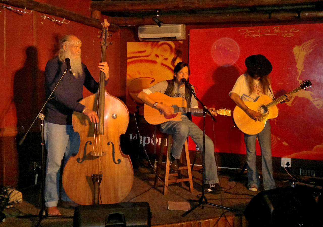 Silver Creek Mountain Band at Steak & Ale, Centurion, South Africa, 2011